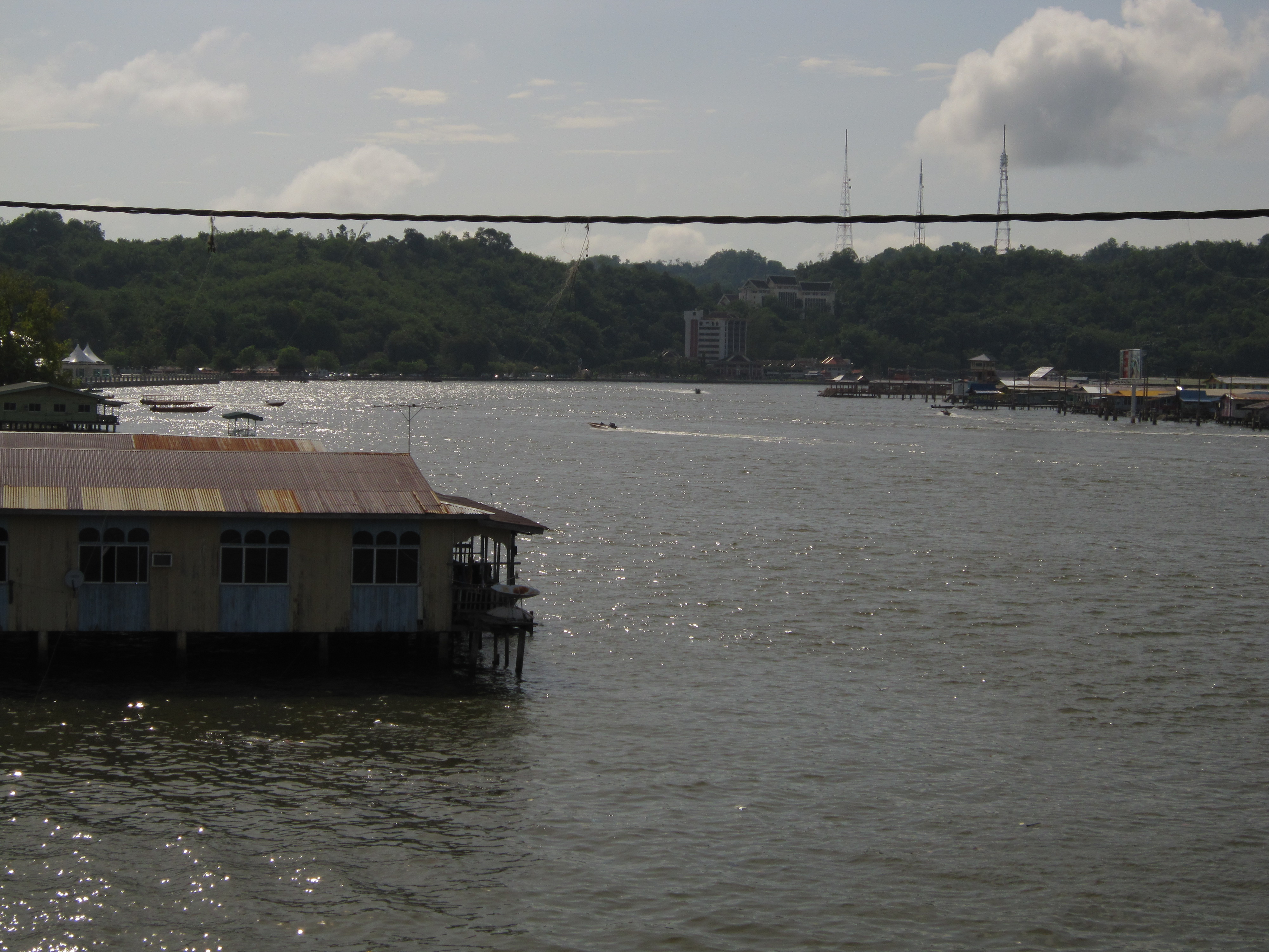 Brunei River